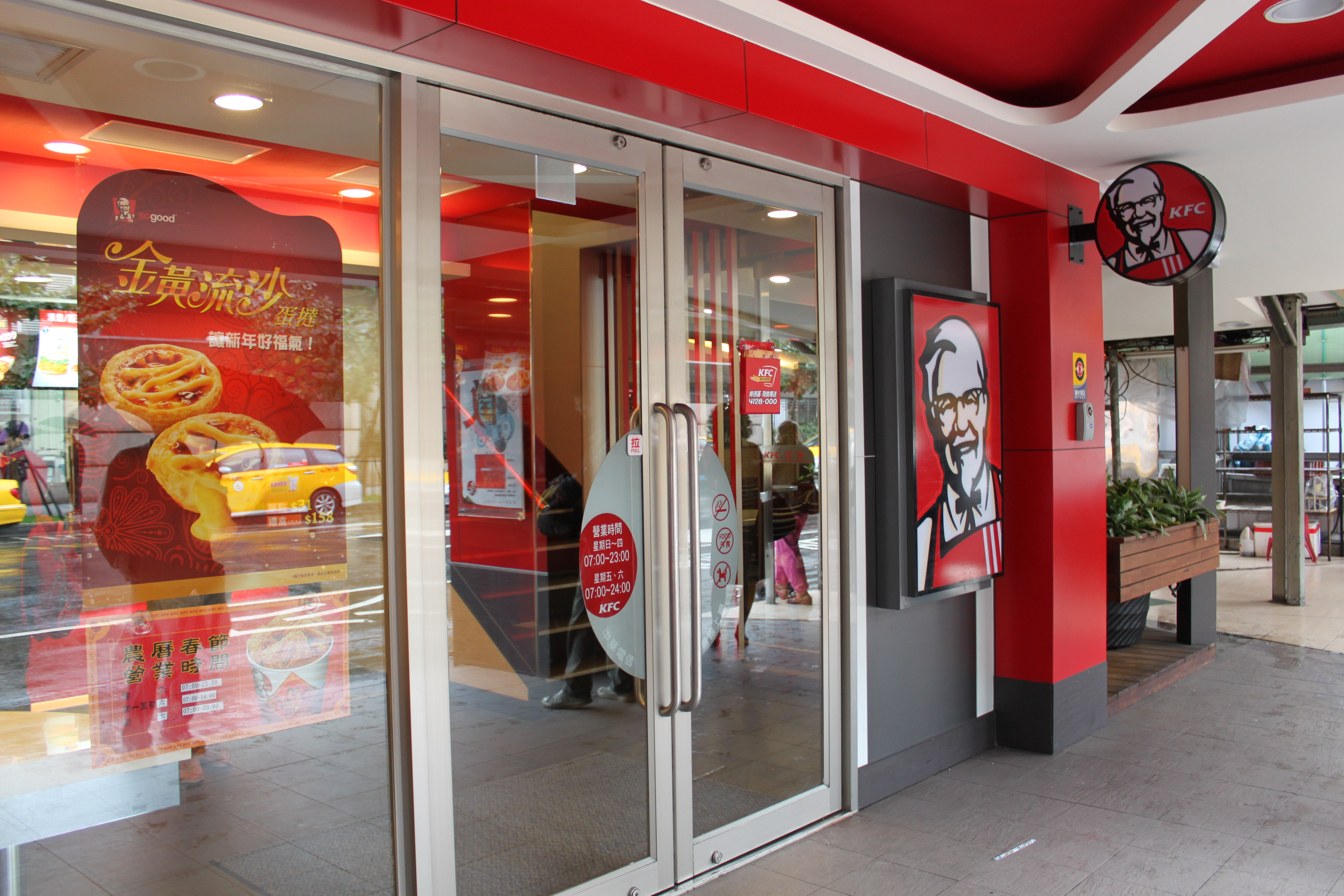 KFC Taipei Shipai Restaurant.